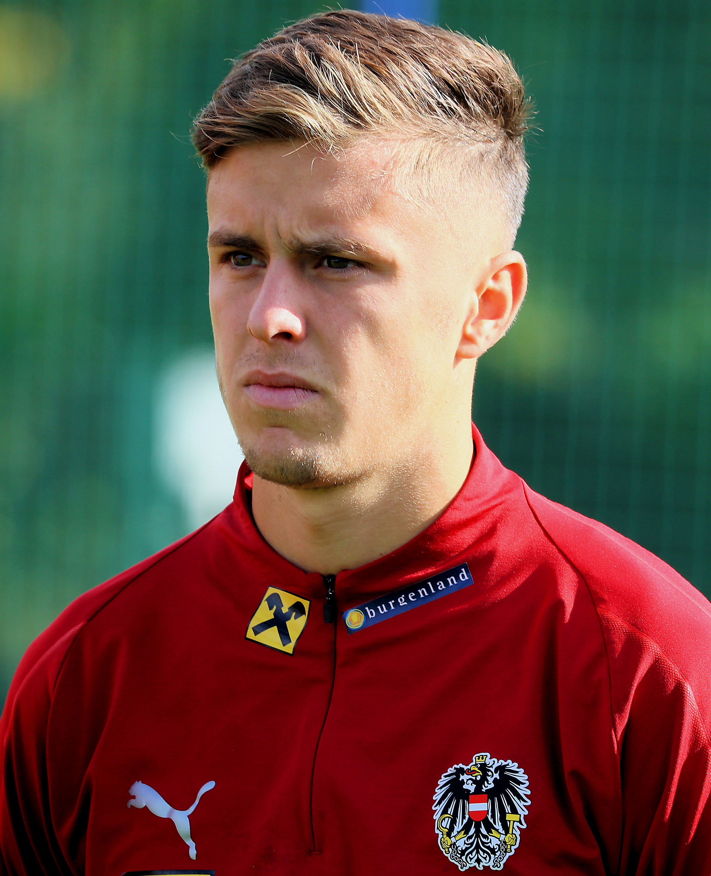 Teamcamp of the Austria national under-21 football team October 2019 in Bad Erlach – The photo shows Christoph Baumgartner (TSG 1899 Hoffenheim).